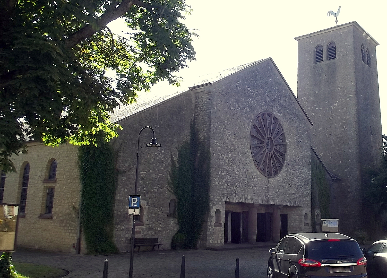 Exterior of the roman catholic church in Tünsdorf, Saarland, Germany